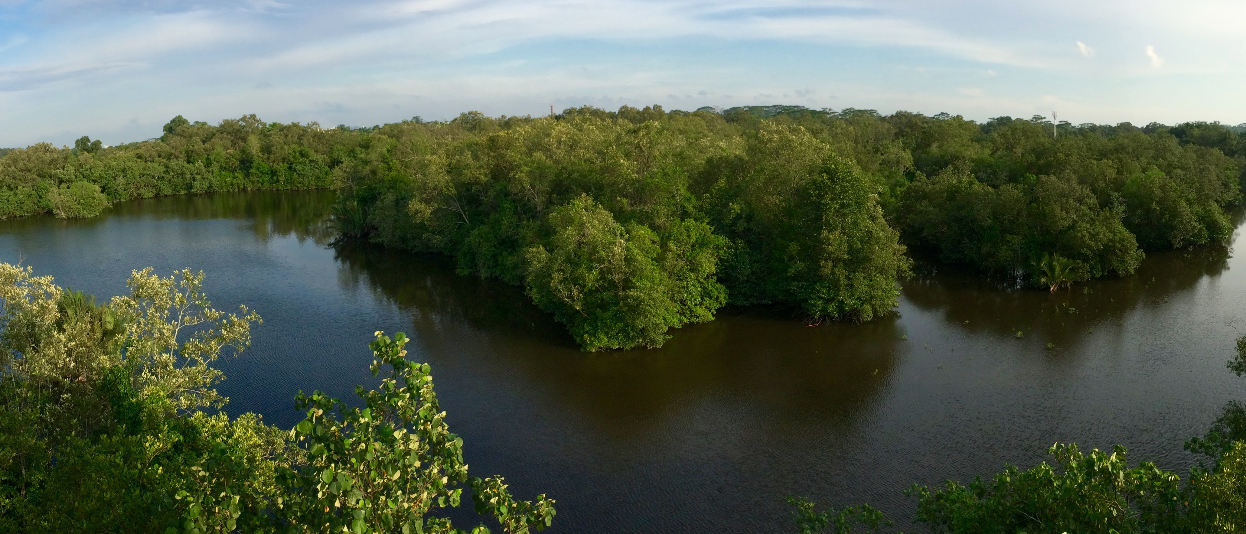 Sungei Buloh Wetlands